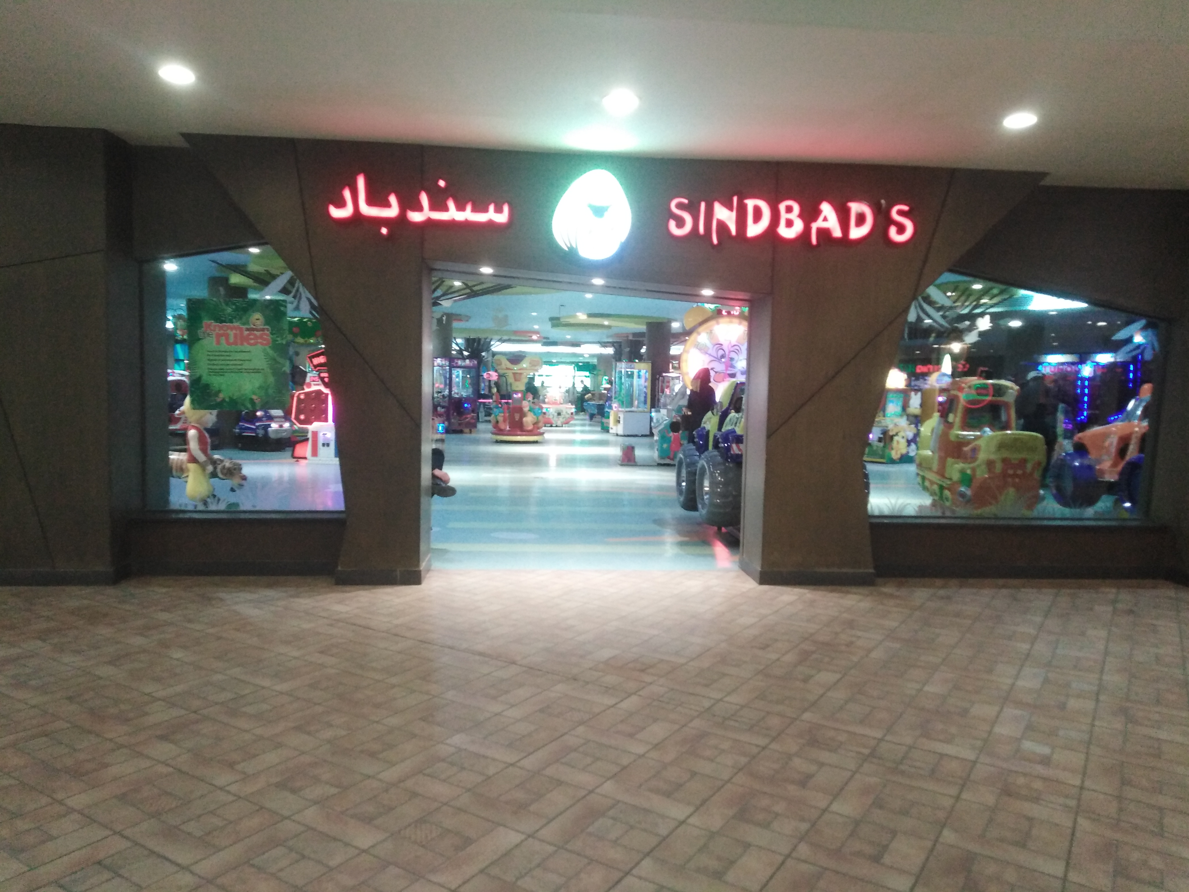 It is captured by me.